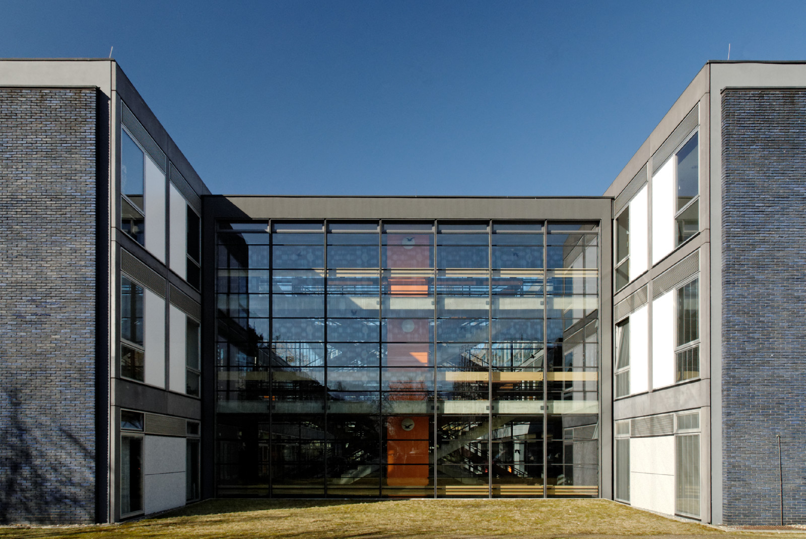 Rolandschule in Düsseldorf-Golzheim, Germany